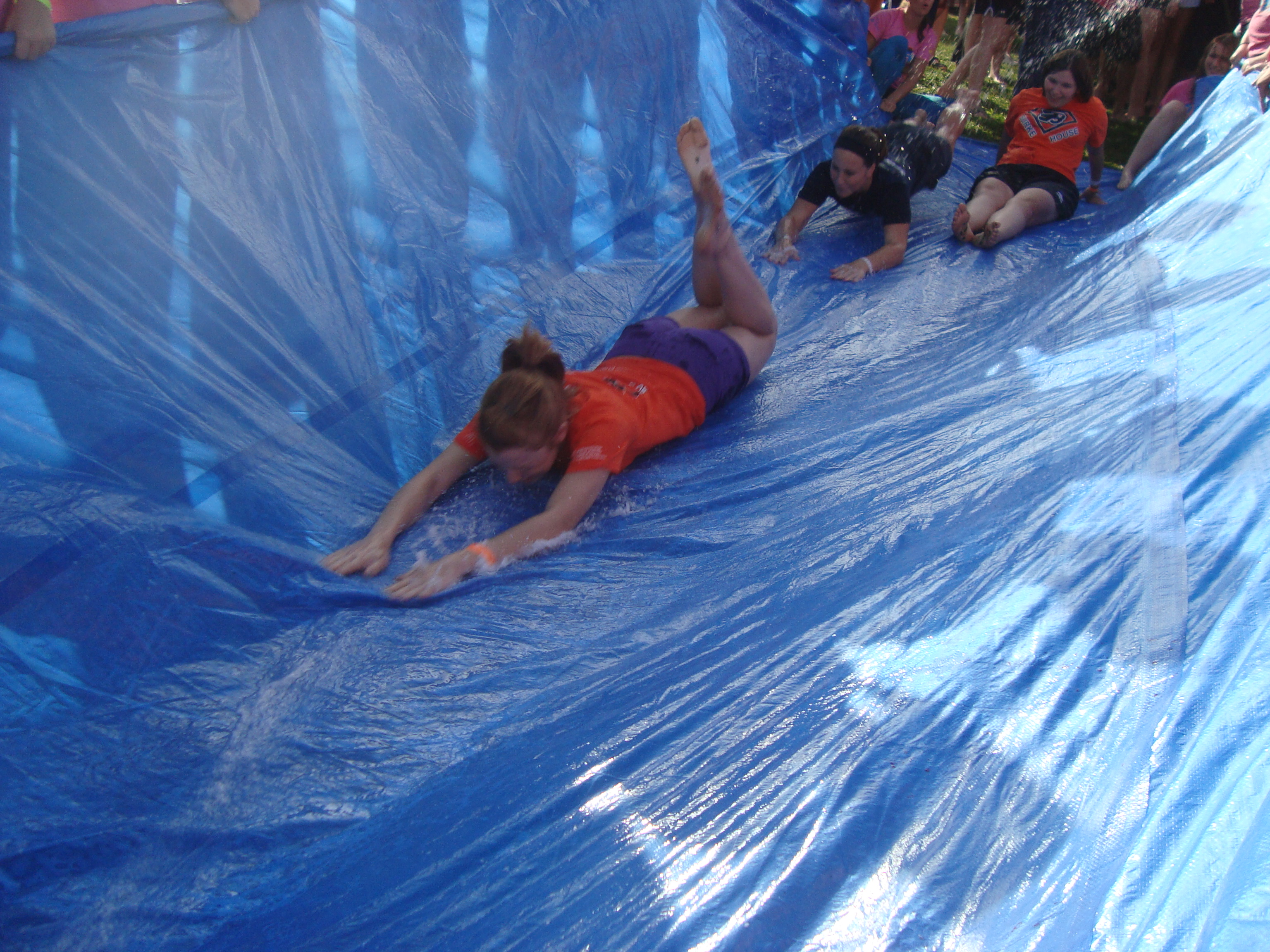 Every year during Frosh Week St.F.X. holds the infamous Jellow-Slide.